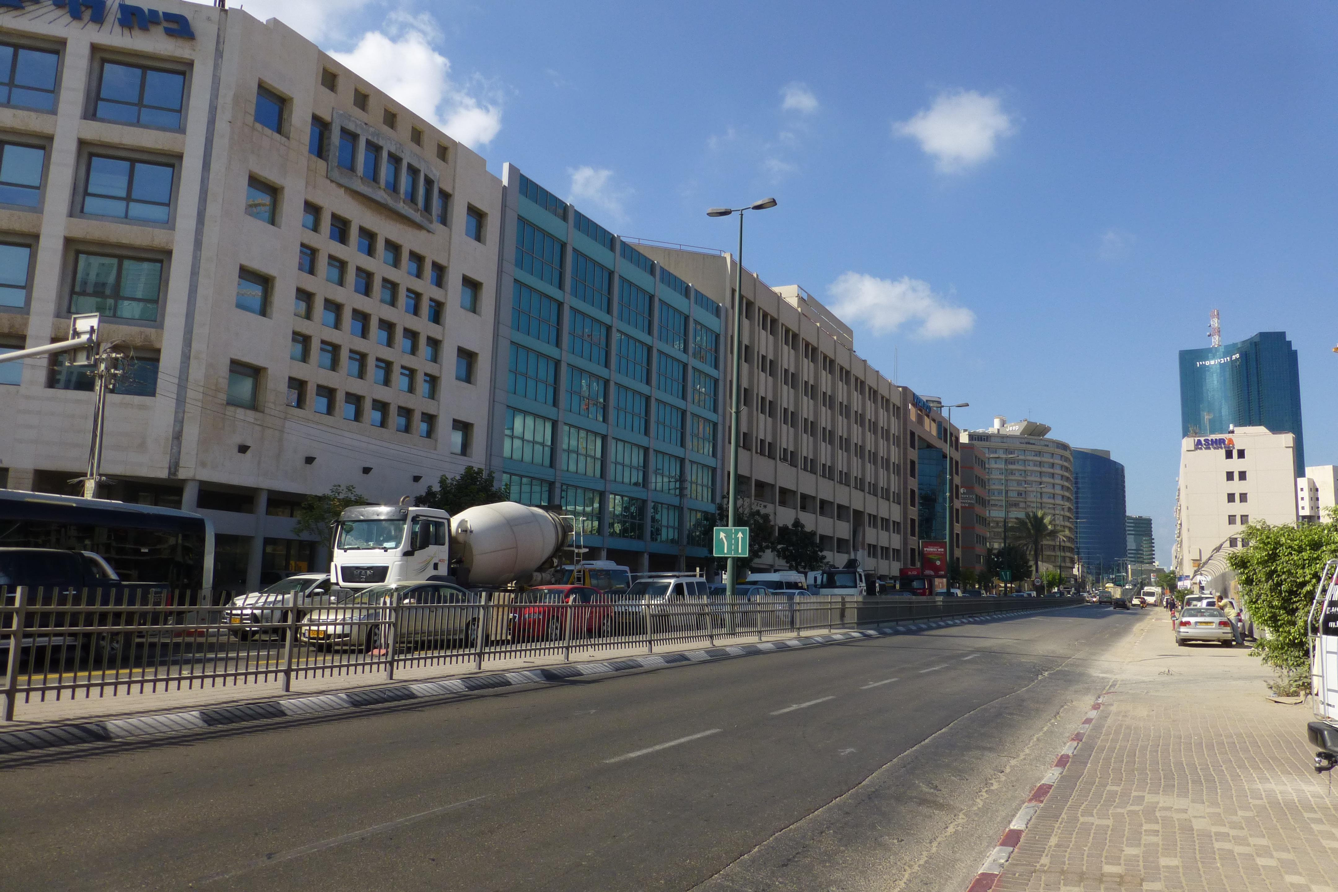 Begin Road, Tel Aviv-Yafo